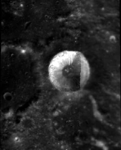 Maury lunar crater - Clementine image